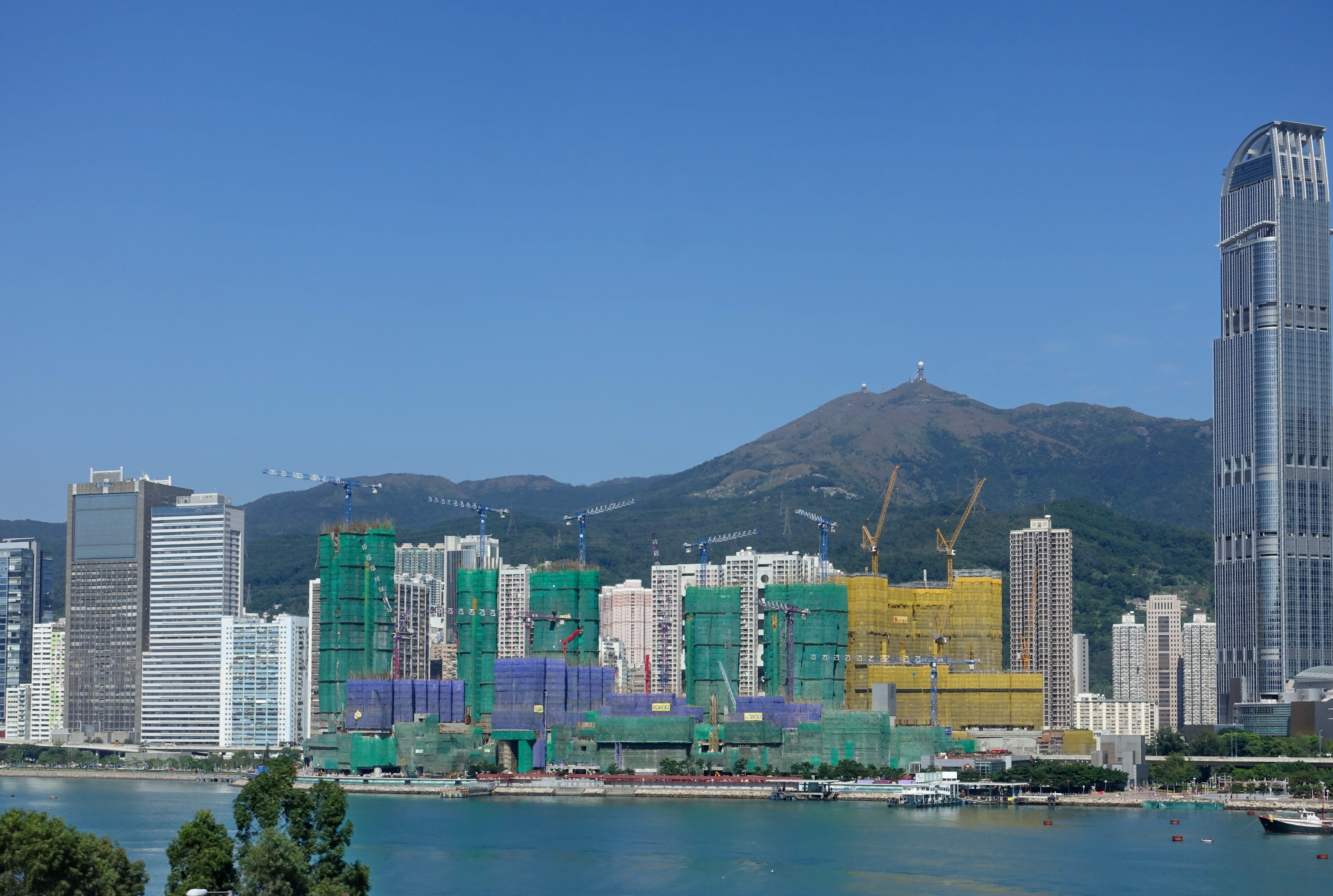 Tsuen Wan West (TW5) Bayside Development, Ocean Pride, Tsuen Wan, Hong Kong.